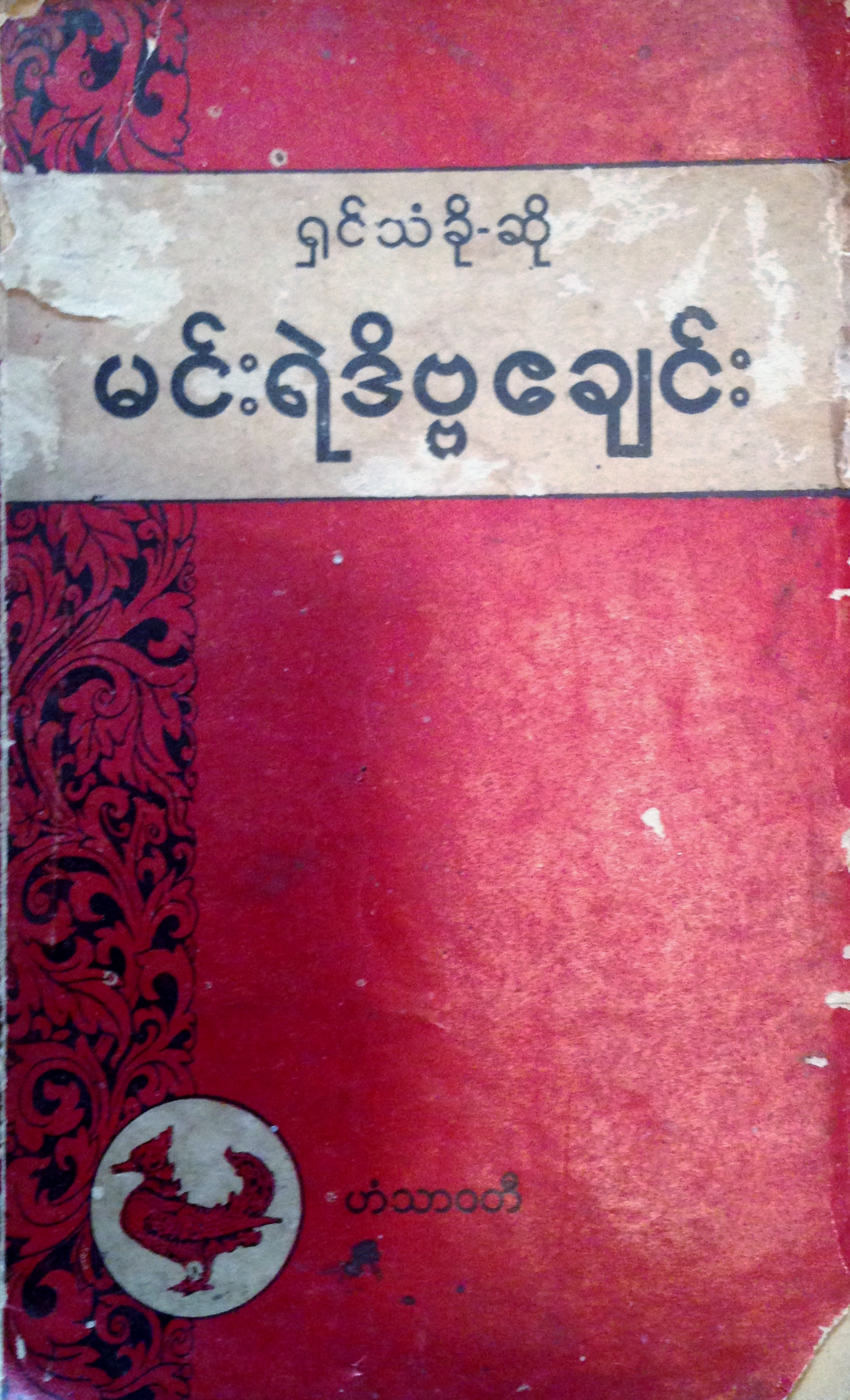 Photo of a copy of Minye Deibba Egyin published in 1967